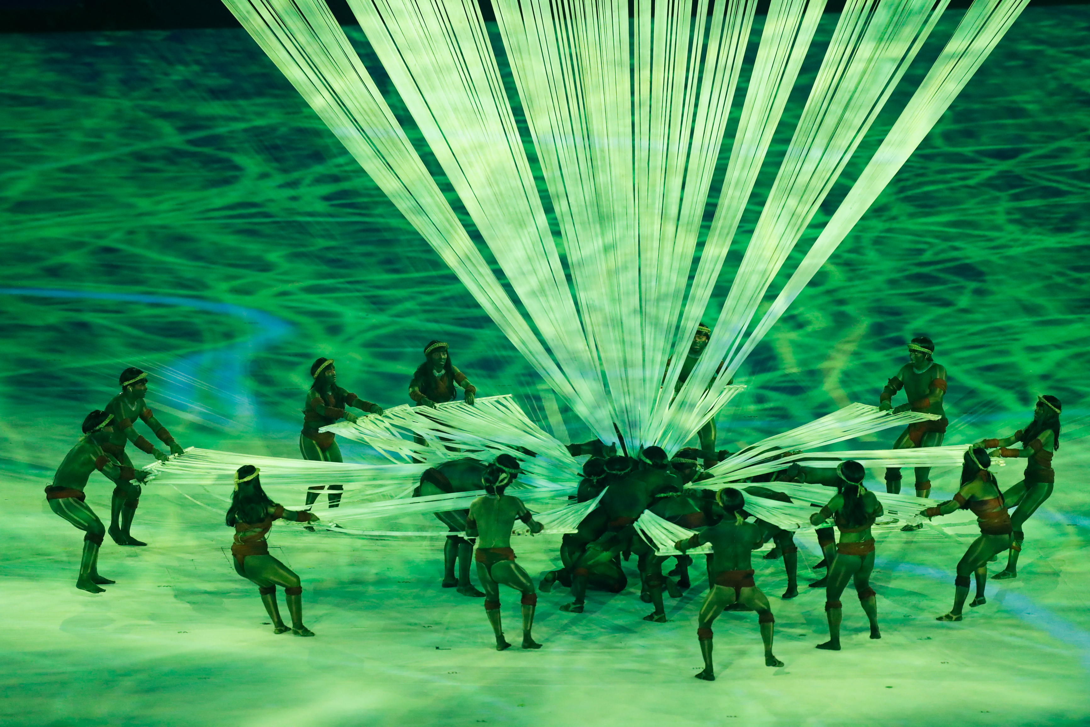 Rio de Janeiro – Opening ceremony of the 2016 Olympic Games in Maracanã Stadium